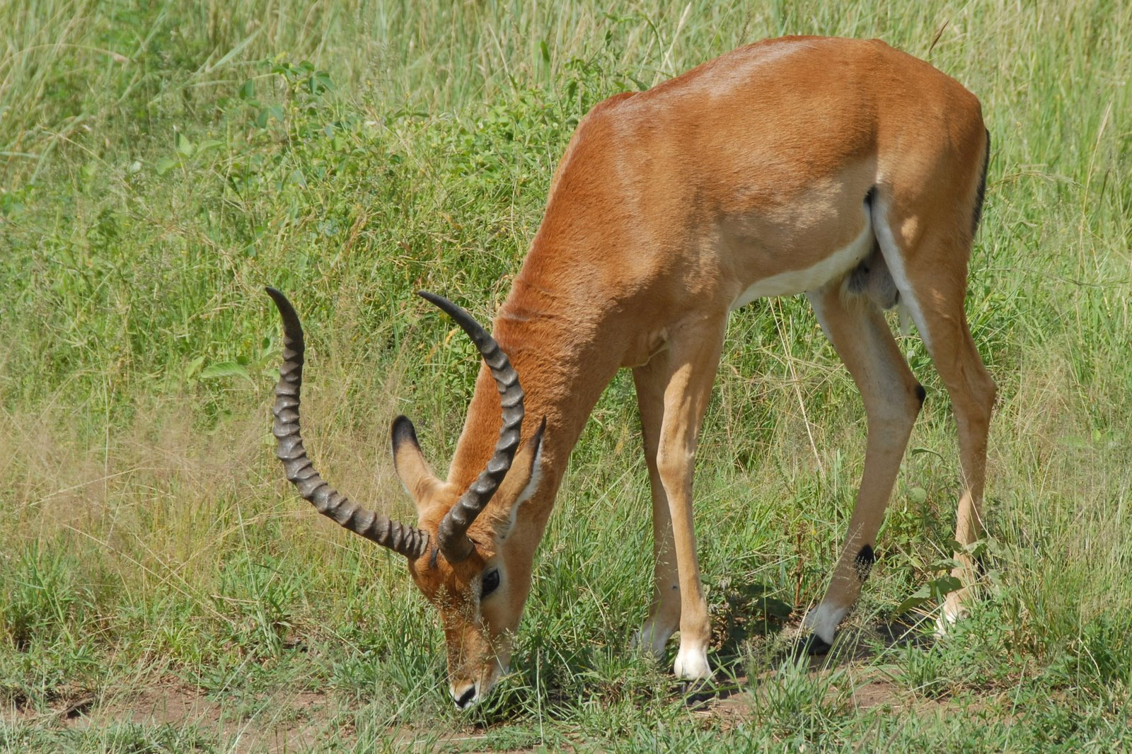 An impala grazing at Serengeti National Park, Tanzania.